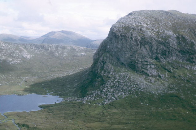 Sron Ulladail over Loch Uladail At 370m metres above the Loch over which it towers, Sron Ulladail is one of the highest sheer cliffs in Britain. It is also very hard to reach being 7km from an already remote road on the Outer Hebrides.